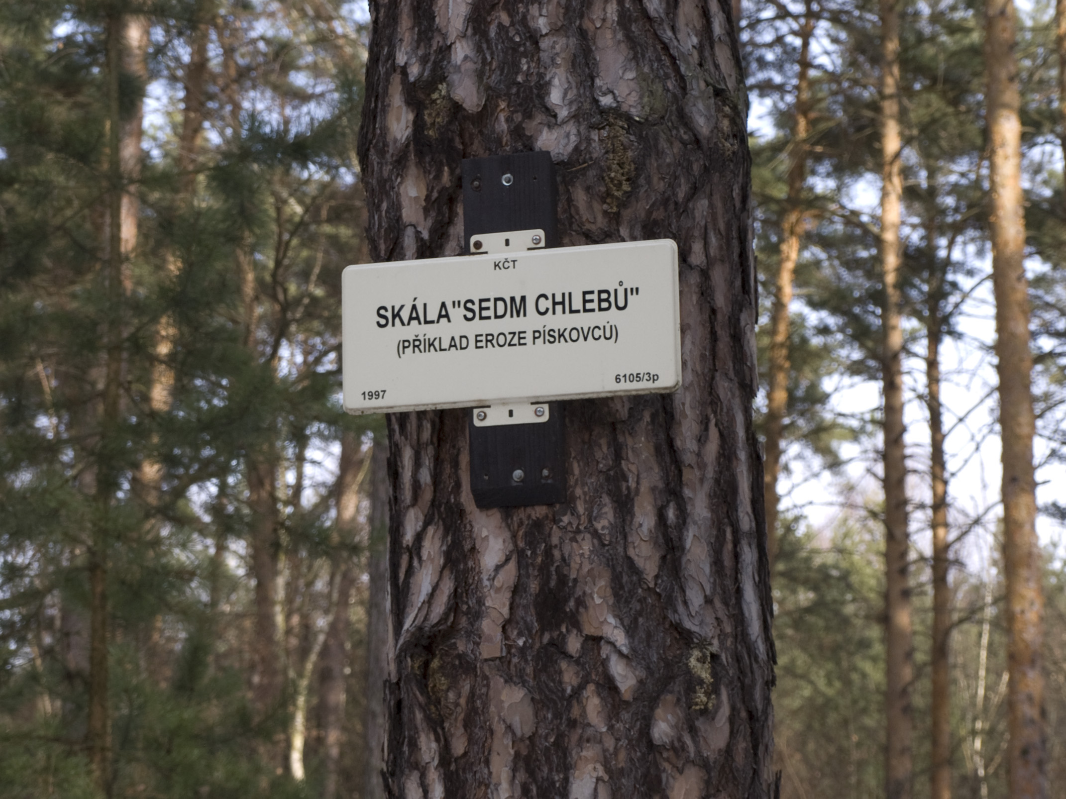 Sedm chlebů, Kokořínsko, Mělník District, Central Bohemian Region